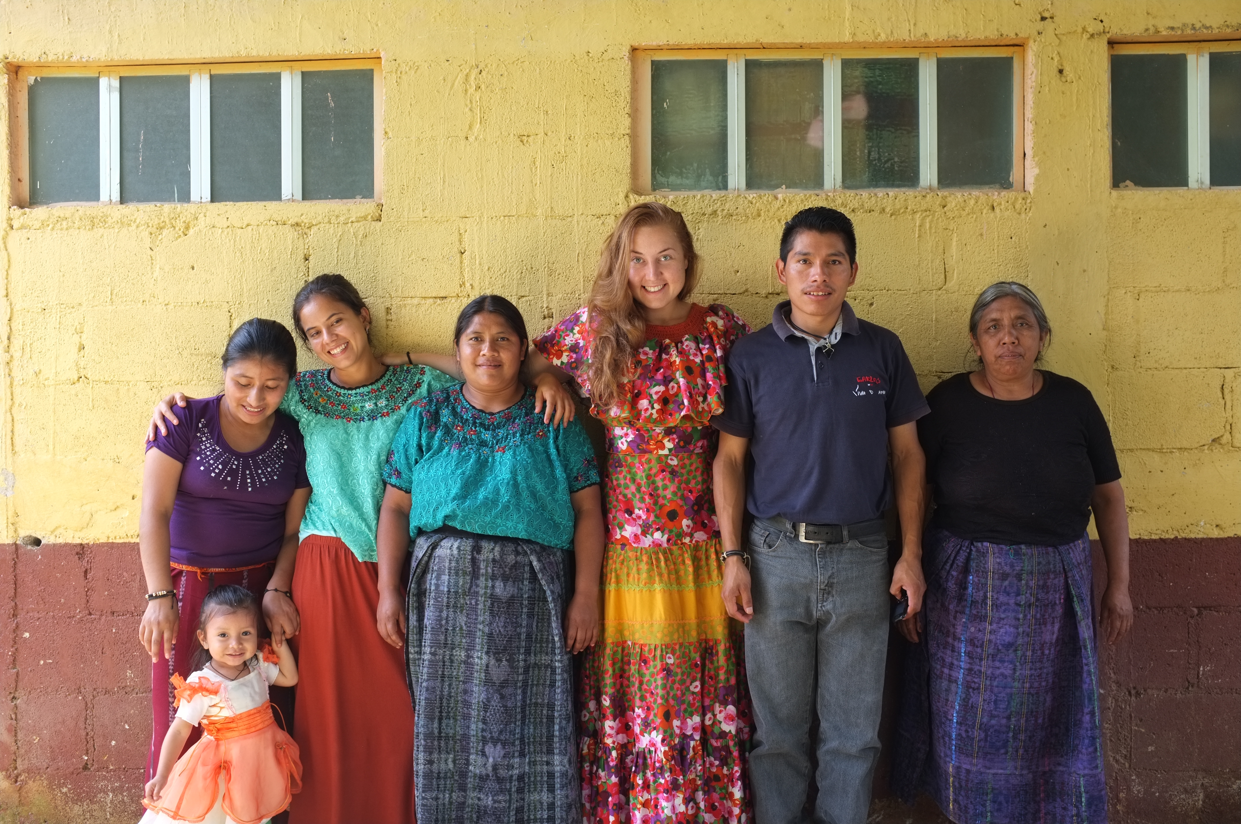 Health&Help